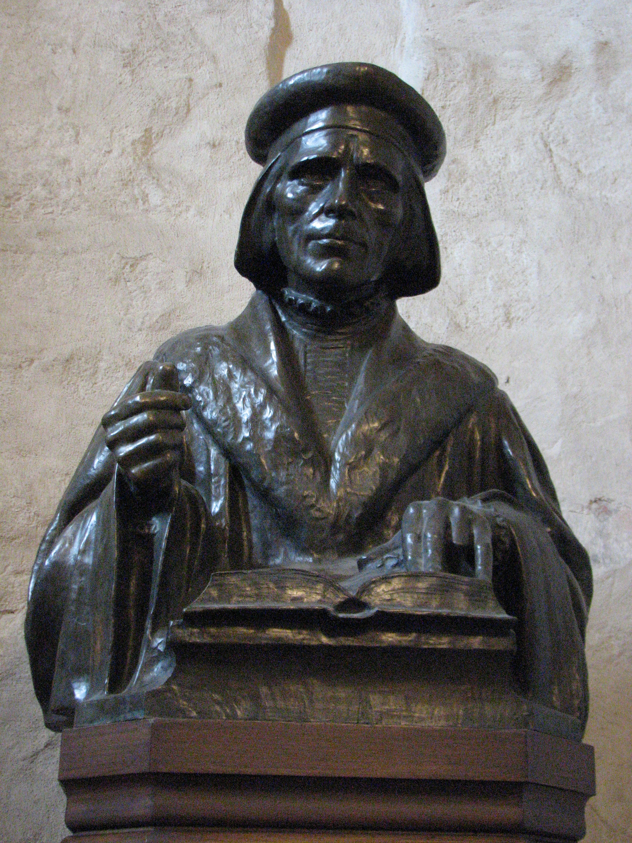 A bronze bust of Mikael Agricola in the entrance hall of Cathedral of Turku, Finland. Sculptor: Emil Wikström.